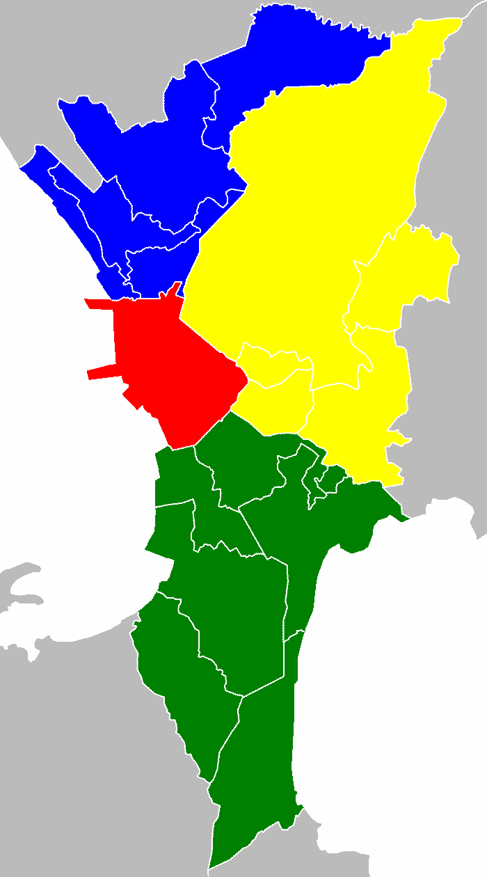 Administrative districts of Metro Manila